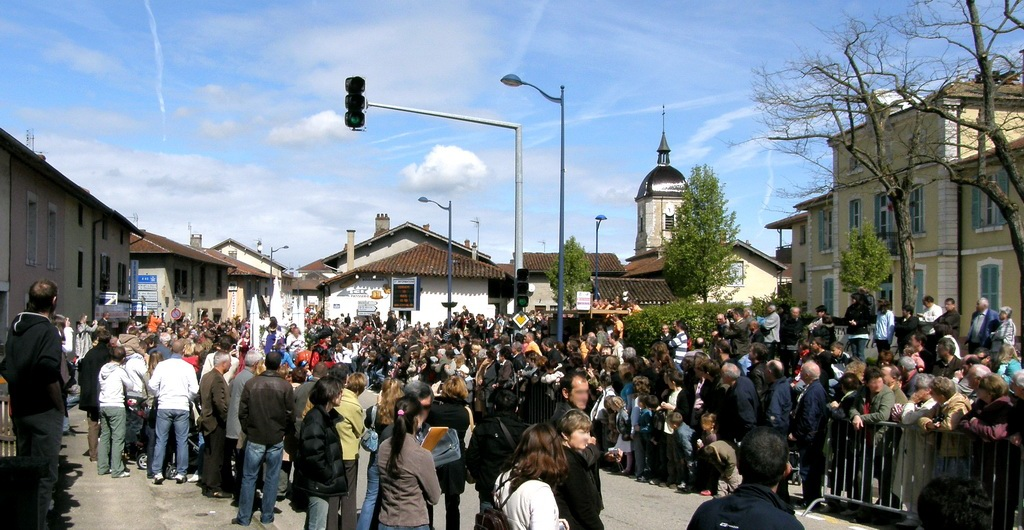 Main street of Viriat, rue Prosper Convert, during the annual parade of the conscripts, 2008 Arpetan: La granta rua de Veriat, lo de la féta de conscrits, 2008